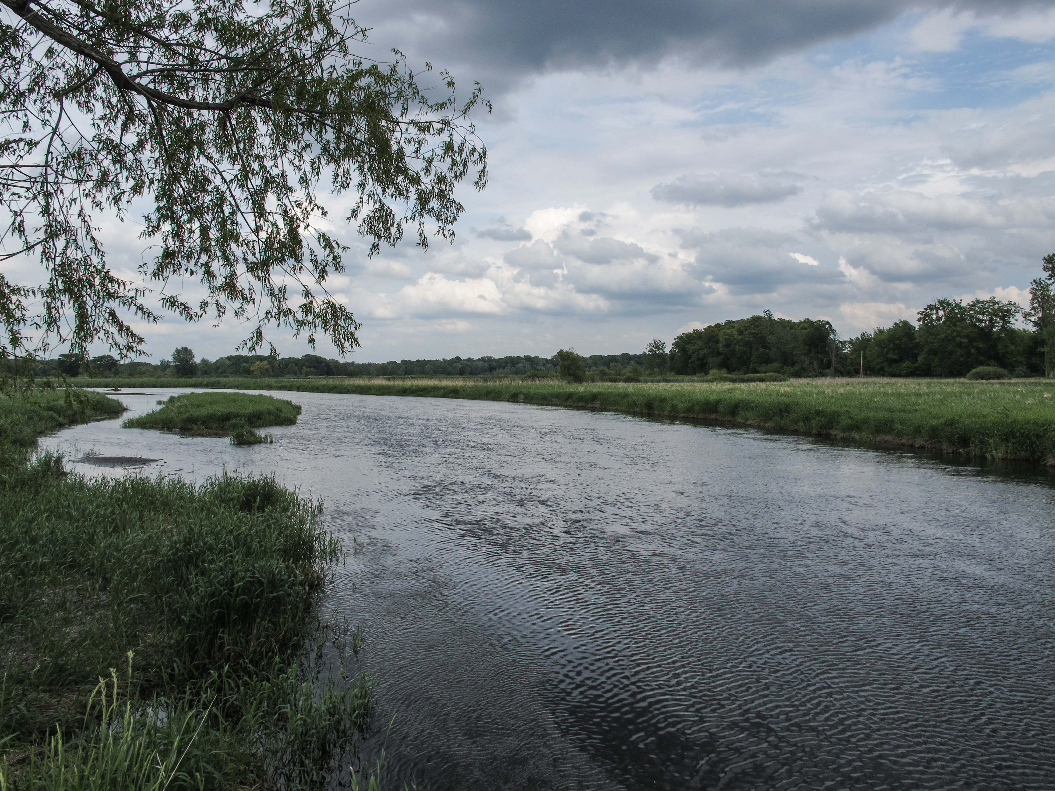 The Fawn River as viewed downstream from a bridge on Haybridge Road in Florence Township in St. Joseph County, Michigan.